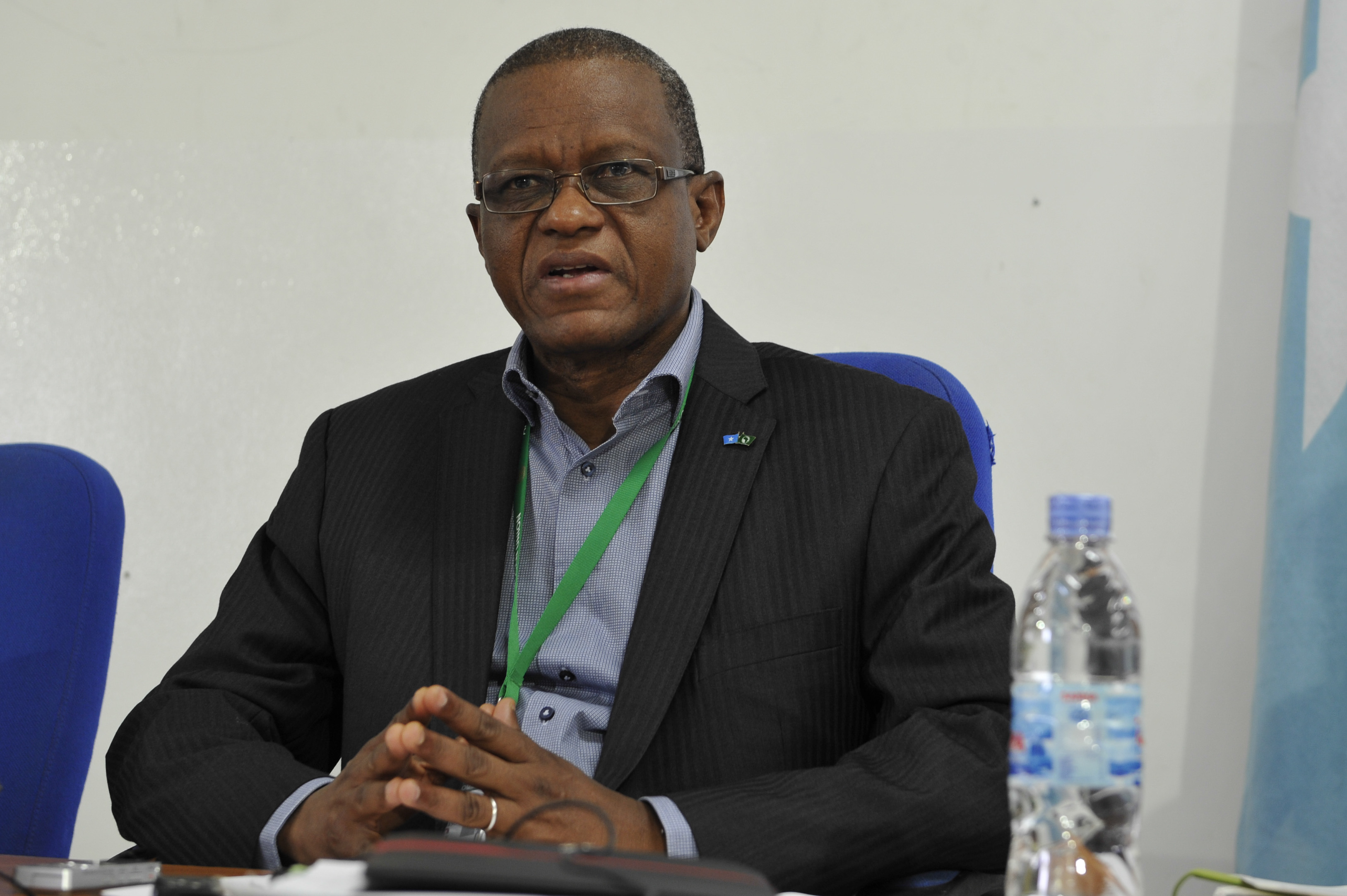 The Special Representative of the Chairperson of the African Union Commission for Somalia (SRCC), Maman Sidikou, addressess a press conference in Mogadishu, Somalia on February 07 2015. AMISOM Photo / Ilyas Ahmed